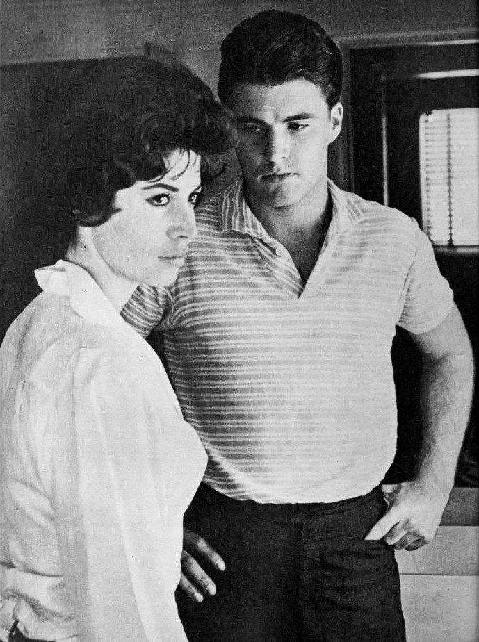 Shari Sheeley and Ricky Nelson, 1961